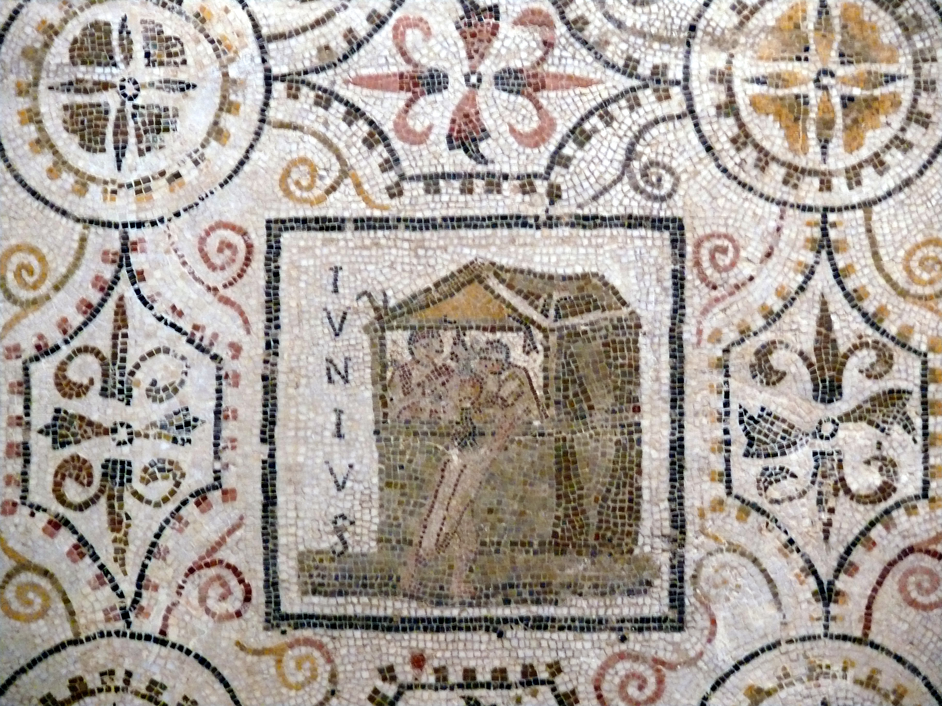 June, detail of a mosaic with the months of the year, starting with the Roman first month March. First half third century El Jem Archeological Museum of Sousse